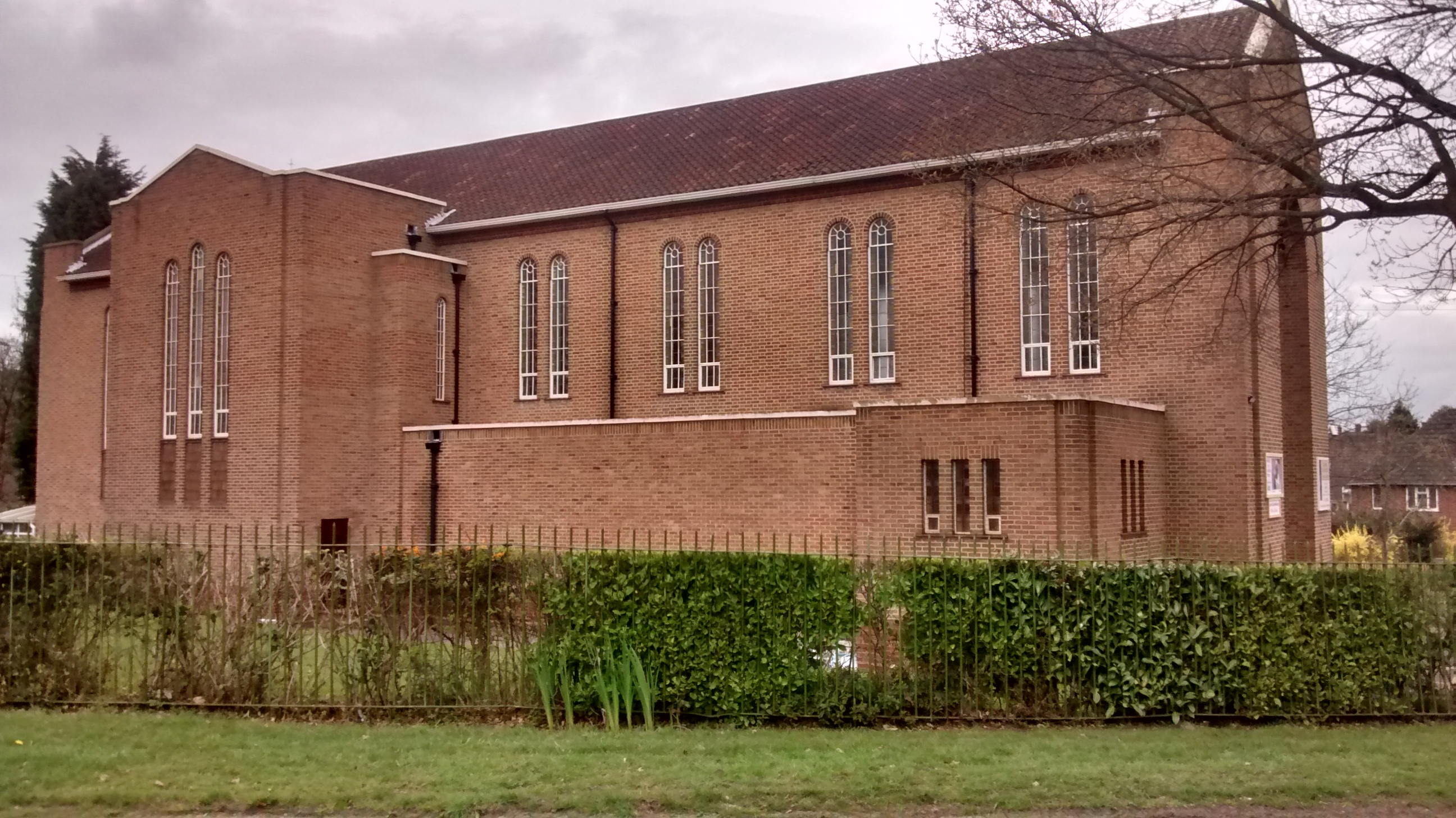 Roman Catholic church of the Blesséd Sacrament, Gooding Avenue, Leicester, seen from the southwest